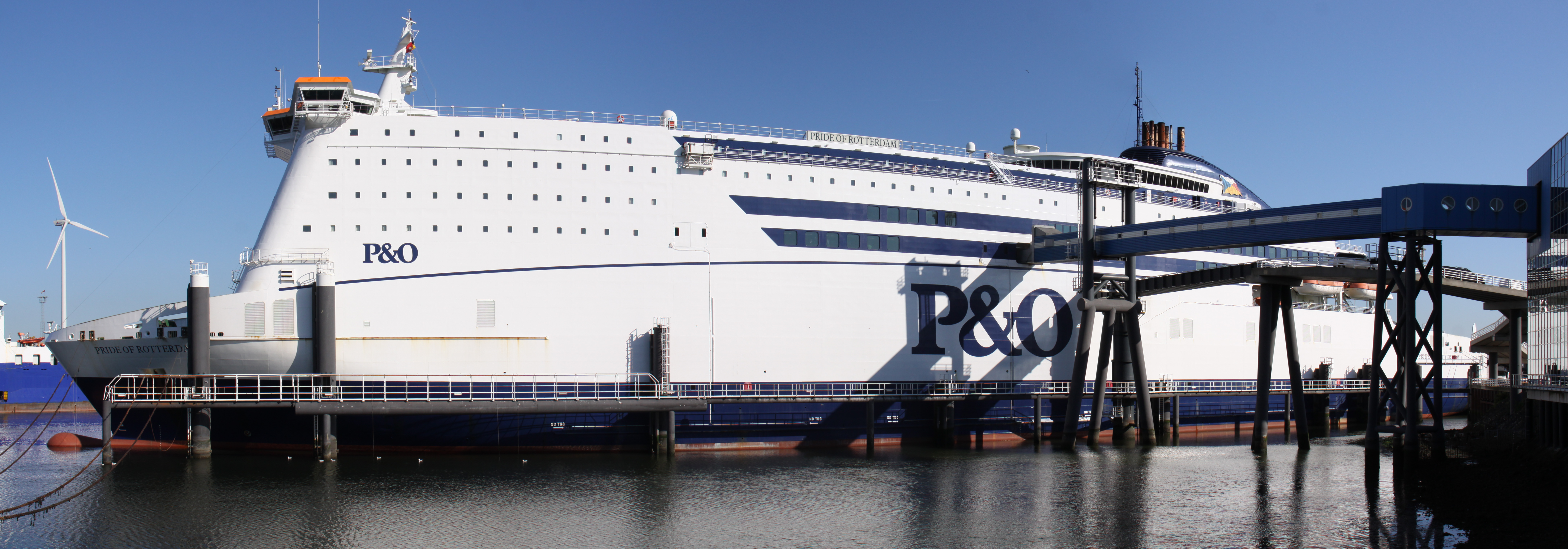 Ferry Pride of Rotterdam at Rotterdam harbour